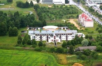 Kindergarten_Myshkovichi